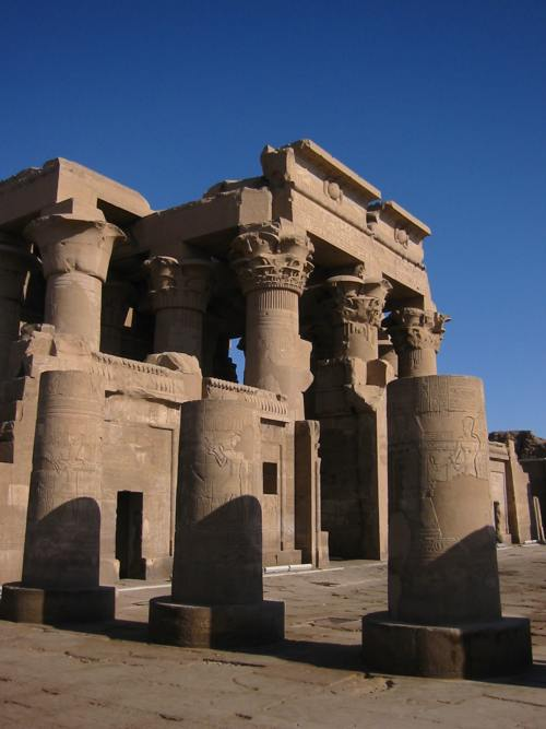 Kom Ombo Temple, Egypt.